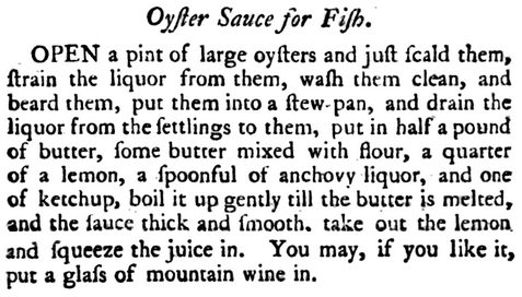 Recipe for "Oyster Sauce for Fish" in The English Art of Cookery by Richard Briggs, 1788